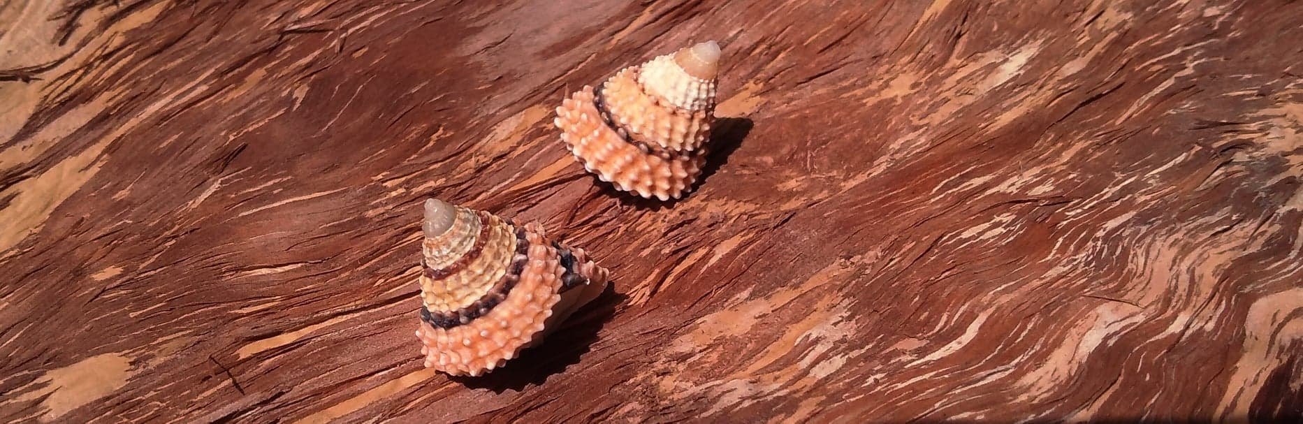 Two shells of Tectarius coronatus Valenciennes, 1832[1] (the coronate or beaded prickly winkle) on cork. Geographic distribution: Mexico; Philippines; Celebes.[2]